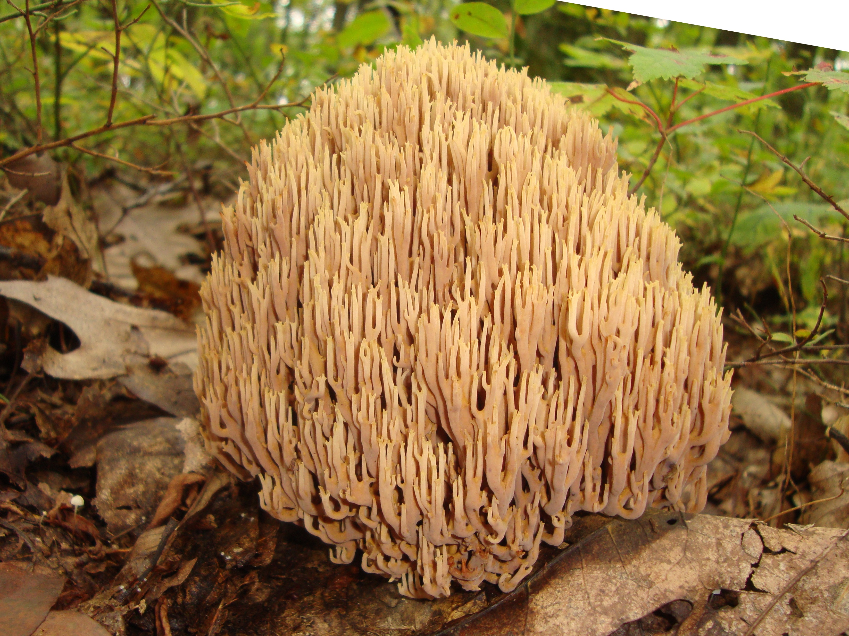 A fruit body of the coral fungus Ramaria stricta (Pers.) Quél. Photographed by Martin Livezey in Camp Sequanota, Somerset County, Pennsylvania, USA.